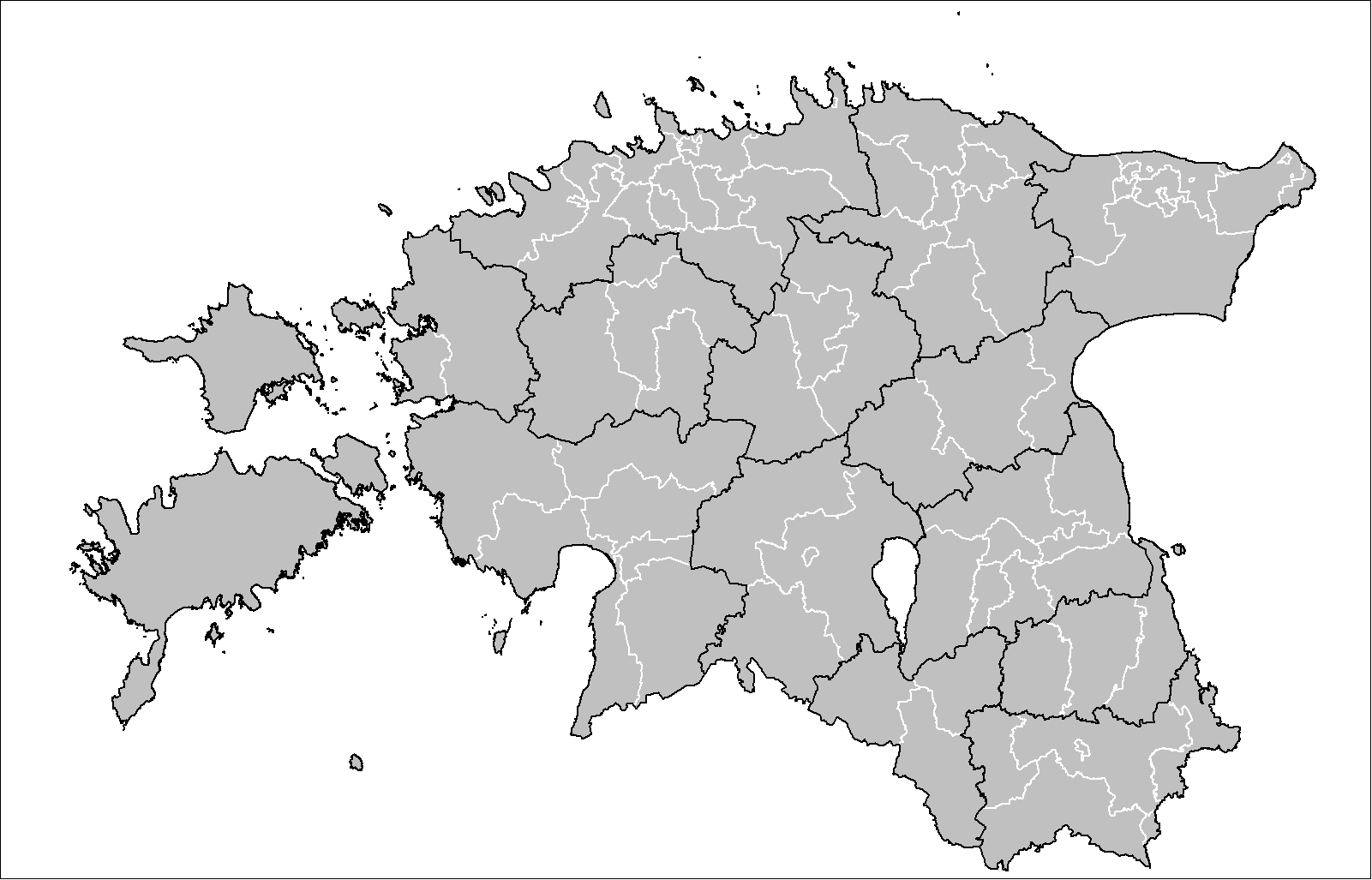 Map of the municipalities of Estonia after the 2017 municipal reform. Created by Rarelibra 15:43, 20 December 2006 (UTC) for public domain use, using MapInfo Professional v8.5 and various mapping resources.